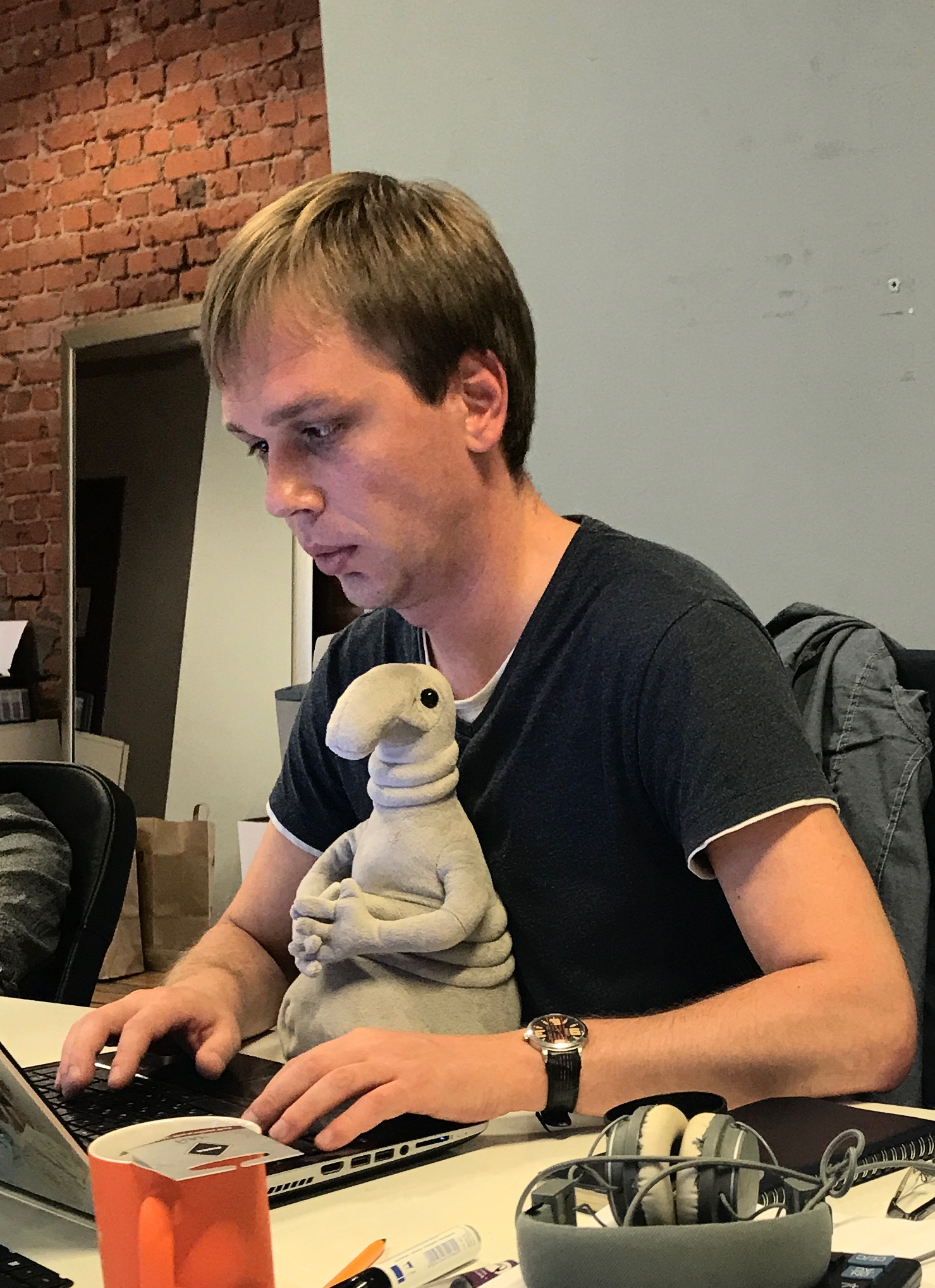 Cropped version of File:Ivan Golunov (photo by Taya Bekbulatova) (1).jpg.